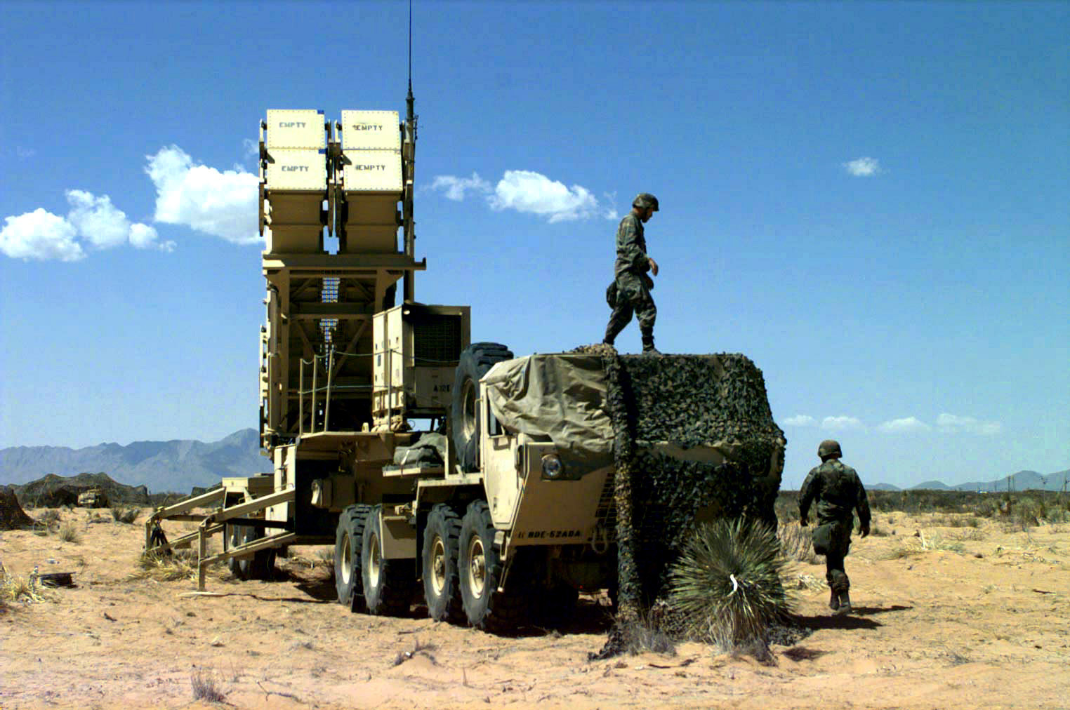 US Army Specialist (SPC) Guerra and Private First Class (PFC) Sabree, A Battery, 5th Battalion, 52nd Air Defense Artillery, 11th ADA Brigade, prepare a four canister launcher, on an M-109 trailer, for an MIM-104 Patriot Missile Launch Drill at Base Camp McGregor Missile Range, Fort Bliss, Texas, during Exercise ROVING SANDS '97.